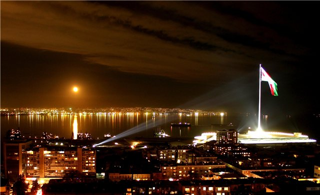 flagpole night